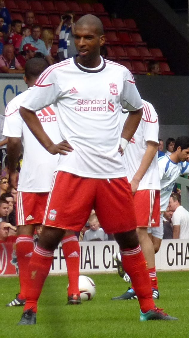 Dutch football player, Ryan Babel, before Jamie Carragher Testimonial Match.